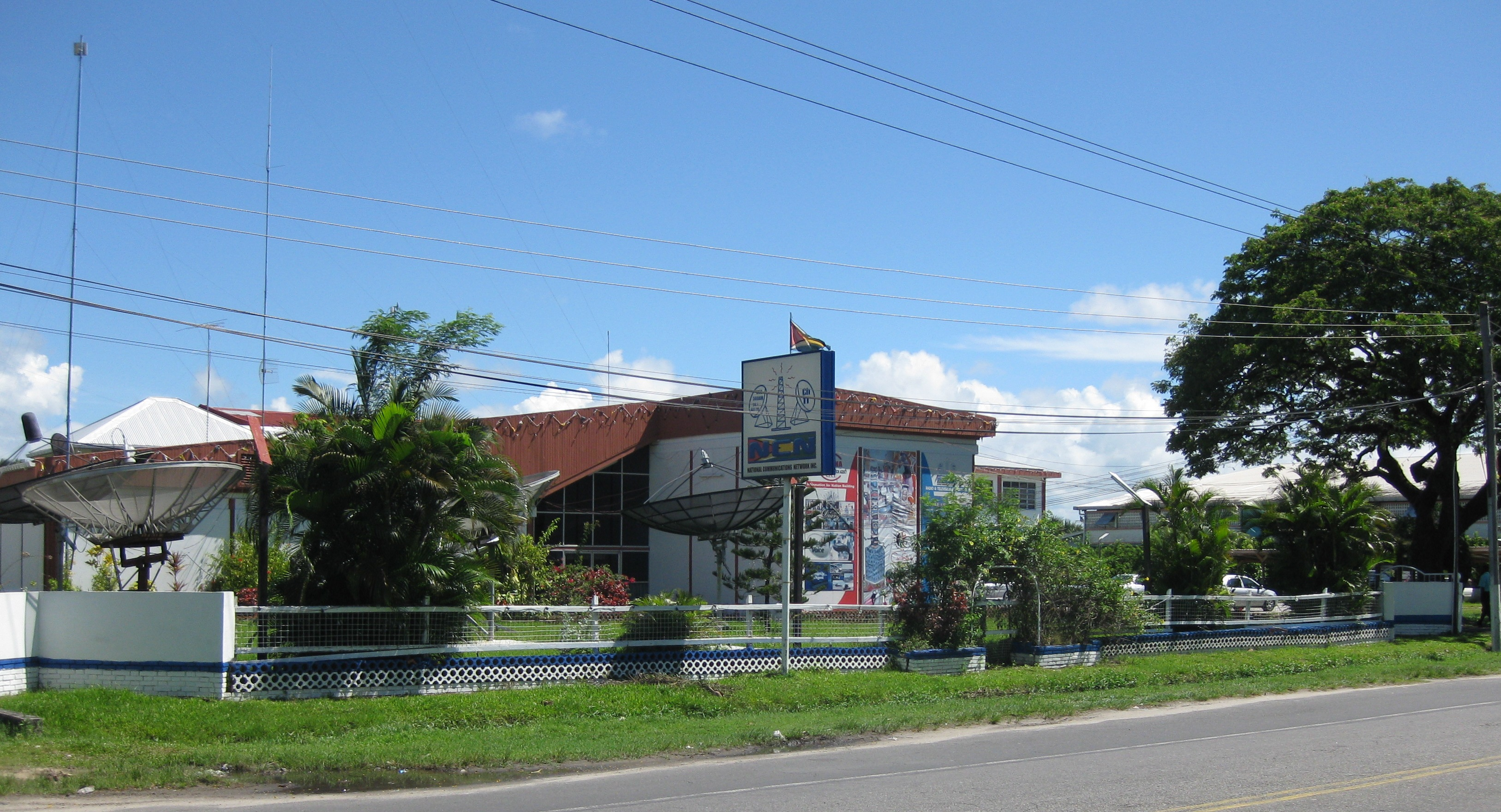 Photograph of the National Communications Network (NCN) Studios in Georgetown, Guyana.